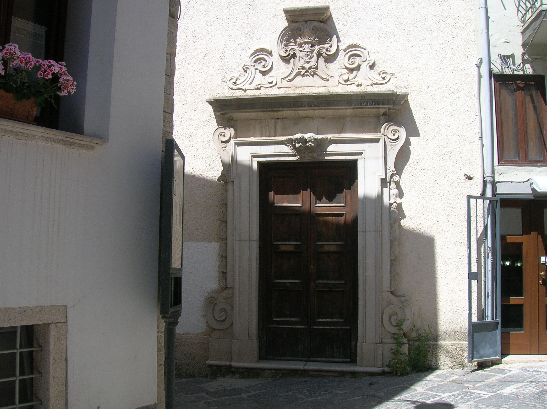 Portale della Cappella del Beato Bonaventura.